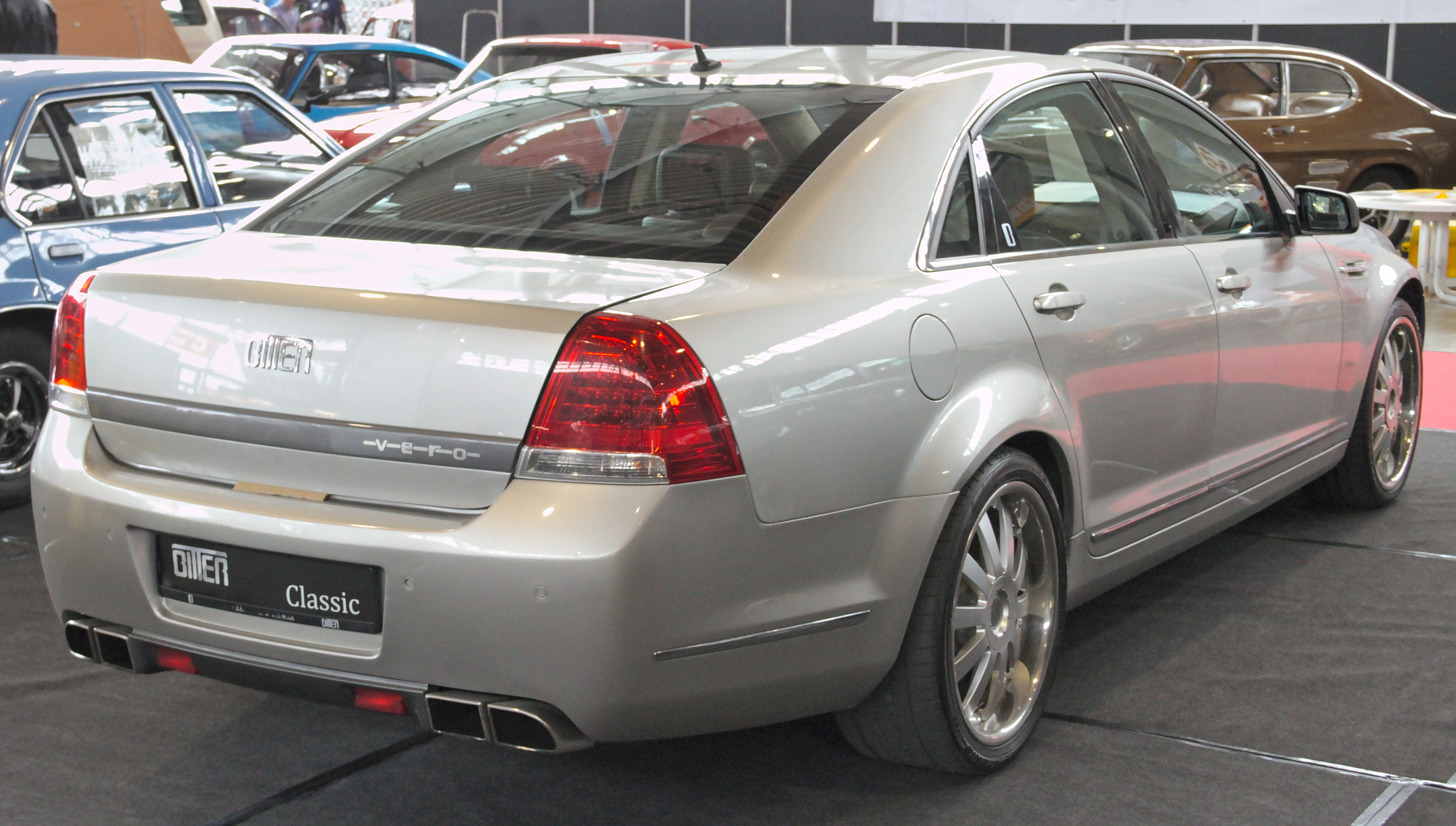 Bitter_Vero at Retro Classics 2020